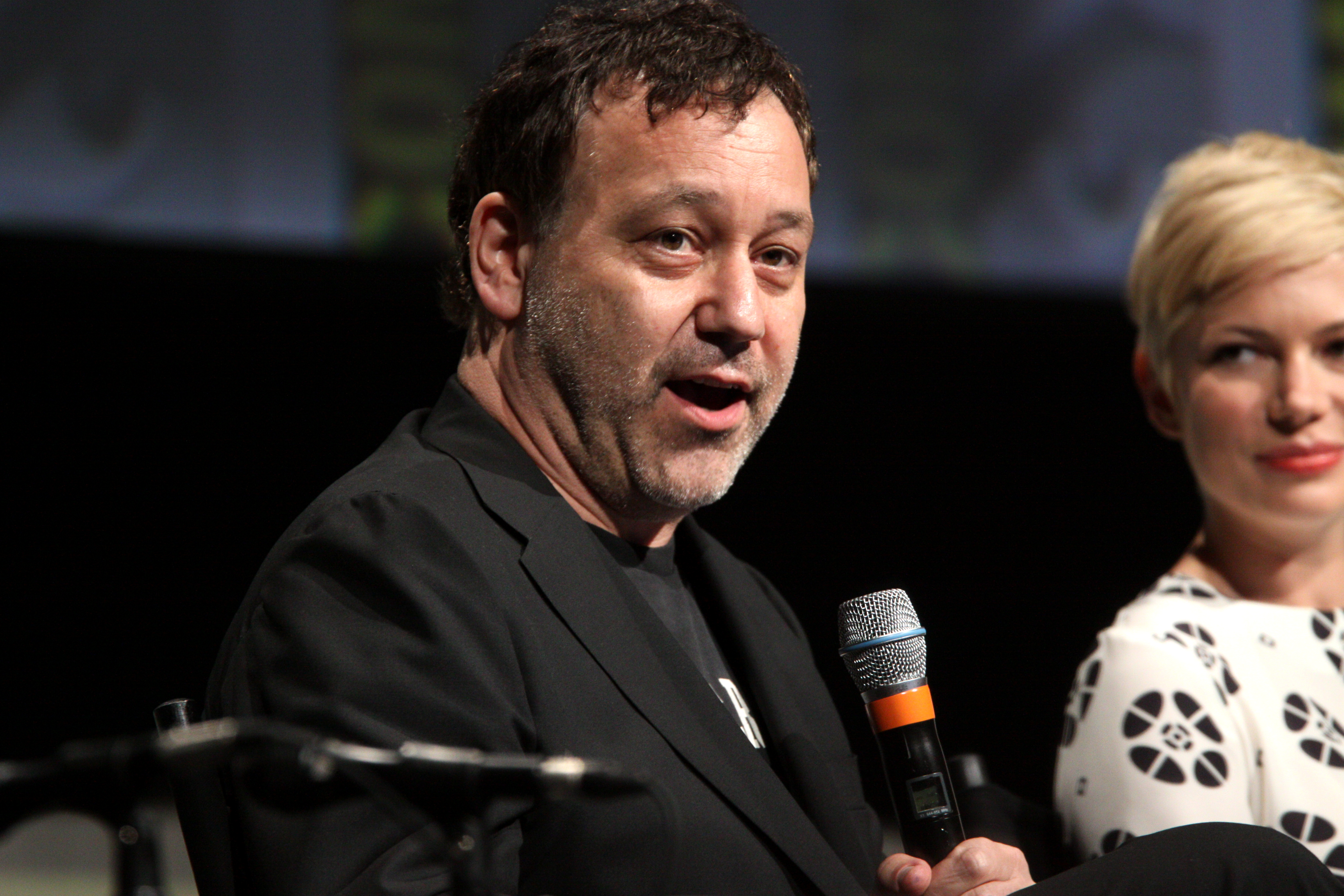 Sam Raimi speaking at the 2012 San Diego Comic-Con International in San Diego, California.